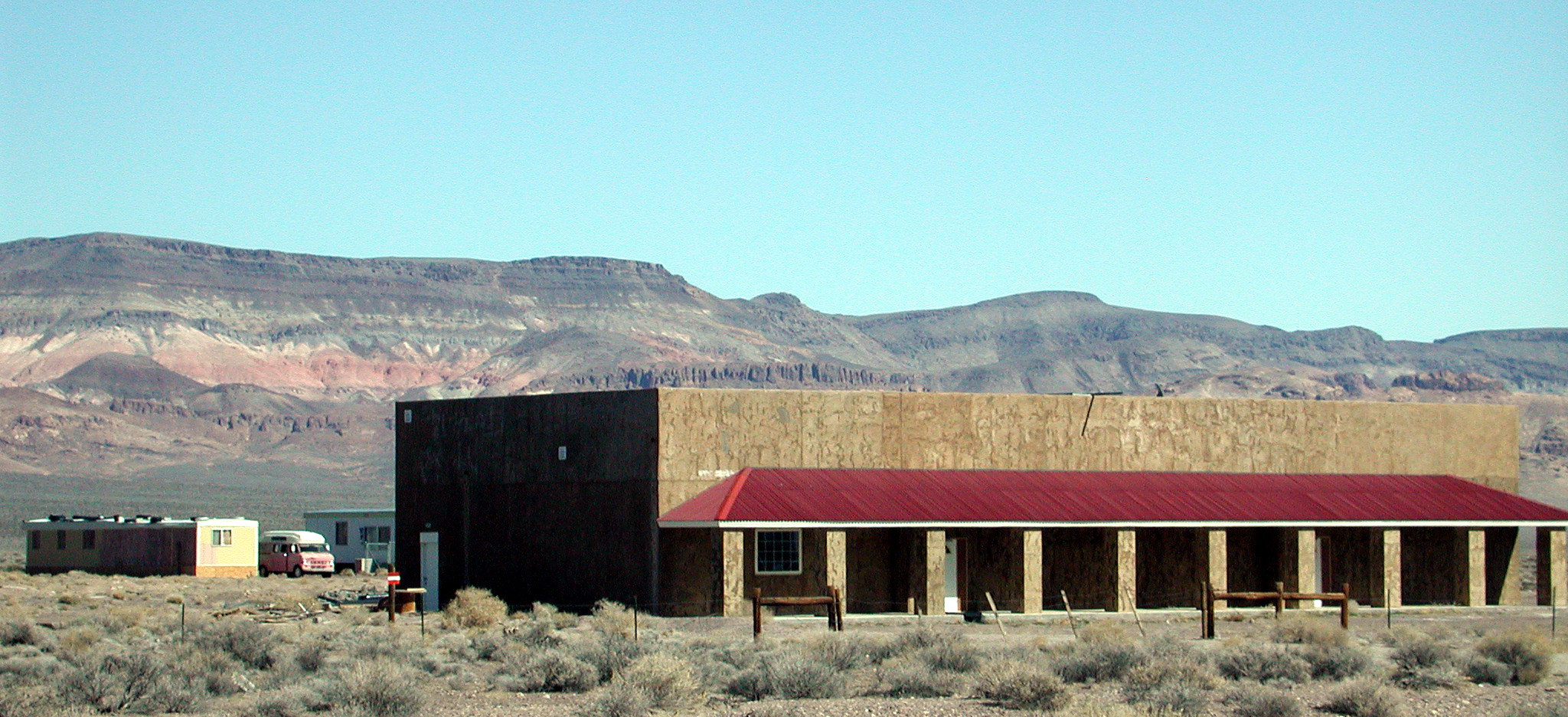 Cluster of buildings at Scotty's Junction, Nevada, in Sarcobatus Flat. Looking east from U.S. Route 95 toward Pahute Mesa and Nellis Air Force Range.